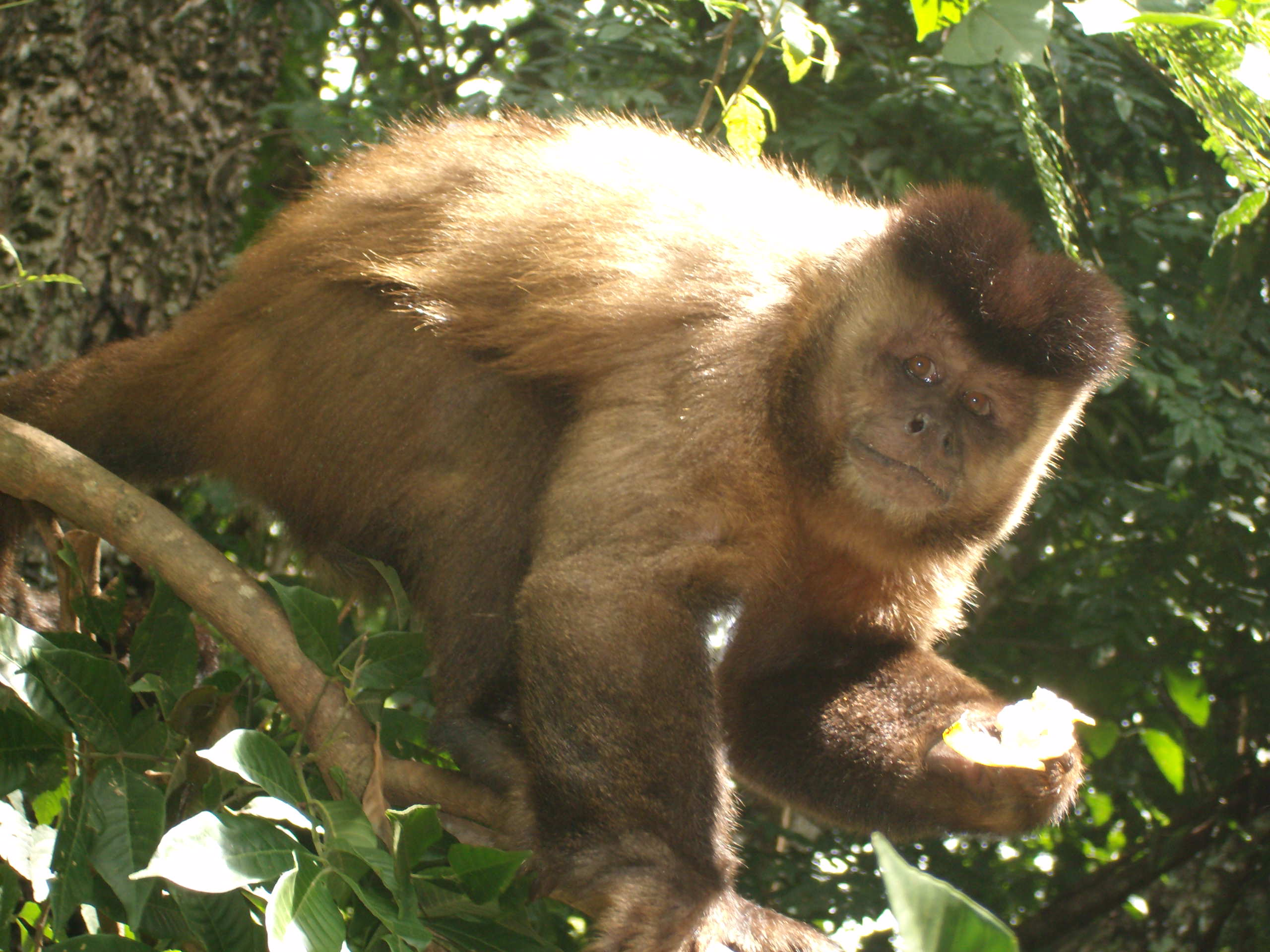 Tufted capuchin observed in Mata dos Macacos, in Santa Fé do Sul, Brasil. Probably, it's Sapajus libidinosus, although, must be an introduced population